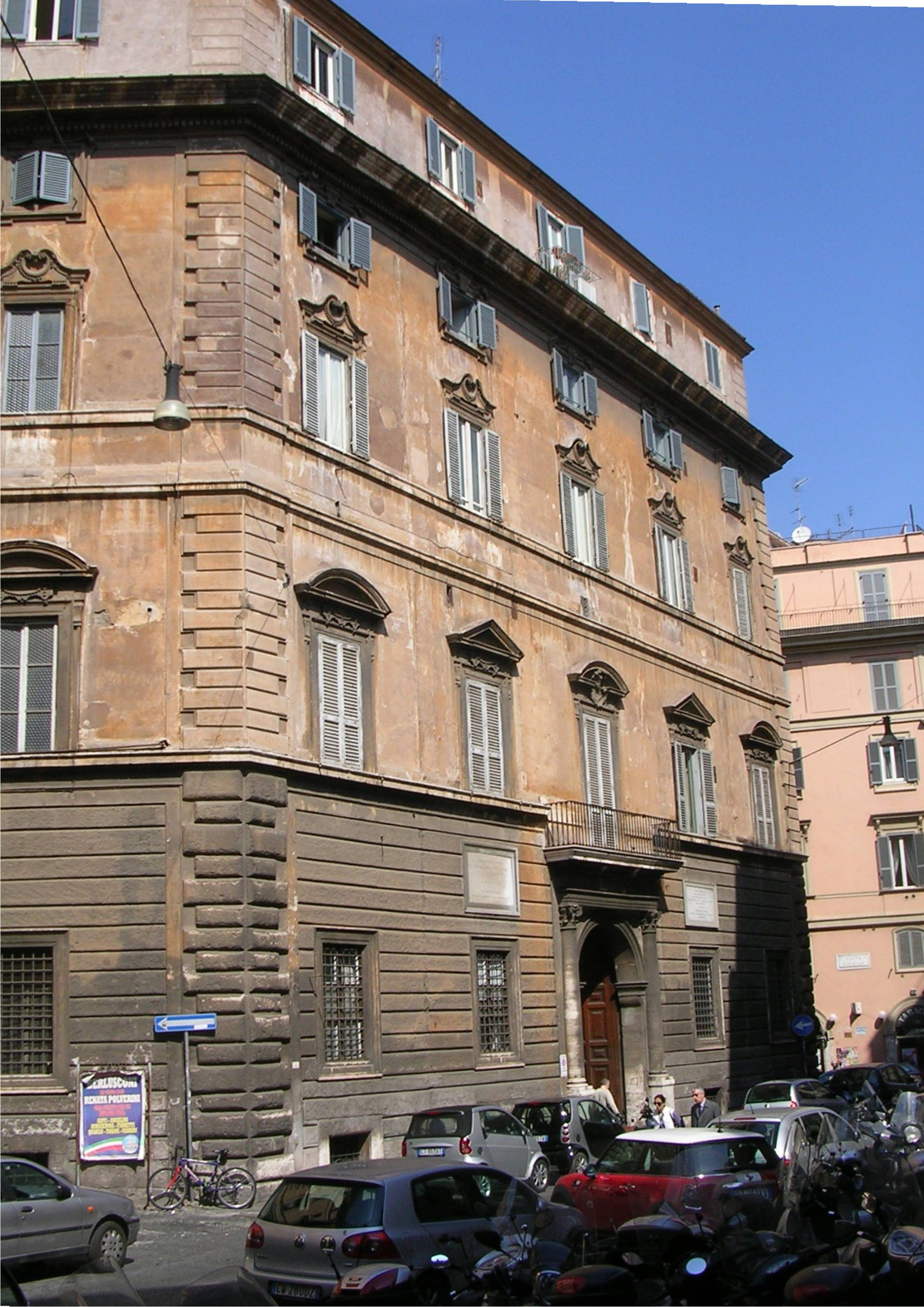 Small palazzo in Roma; photographed by User:Giano - April 2010.